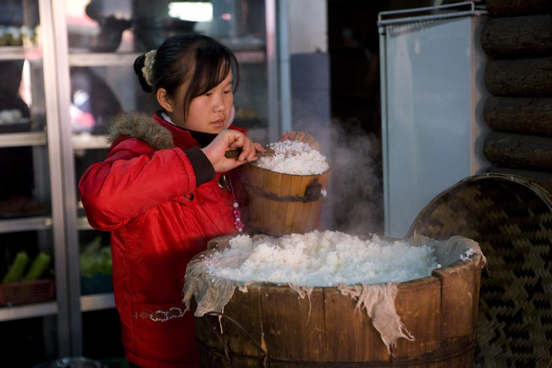 Serving rice in a local restaurant in Kunming, China.